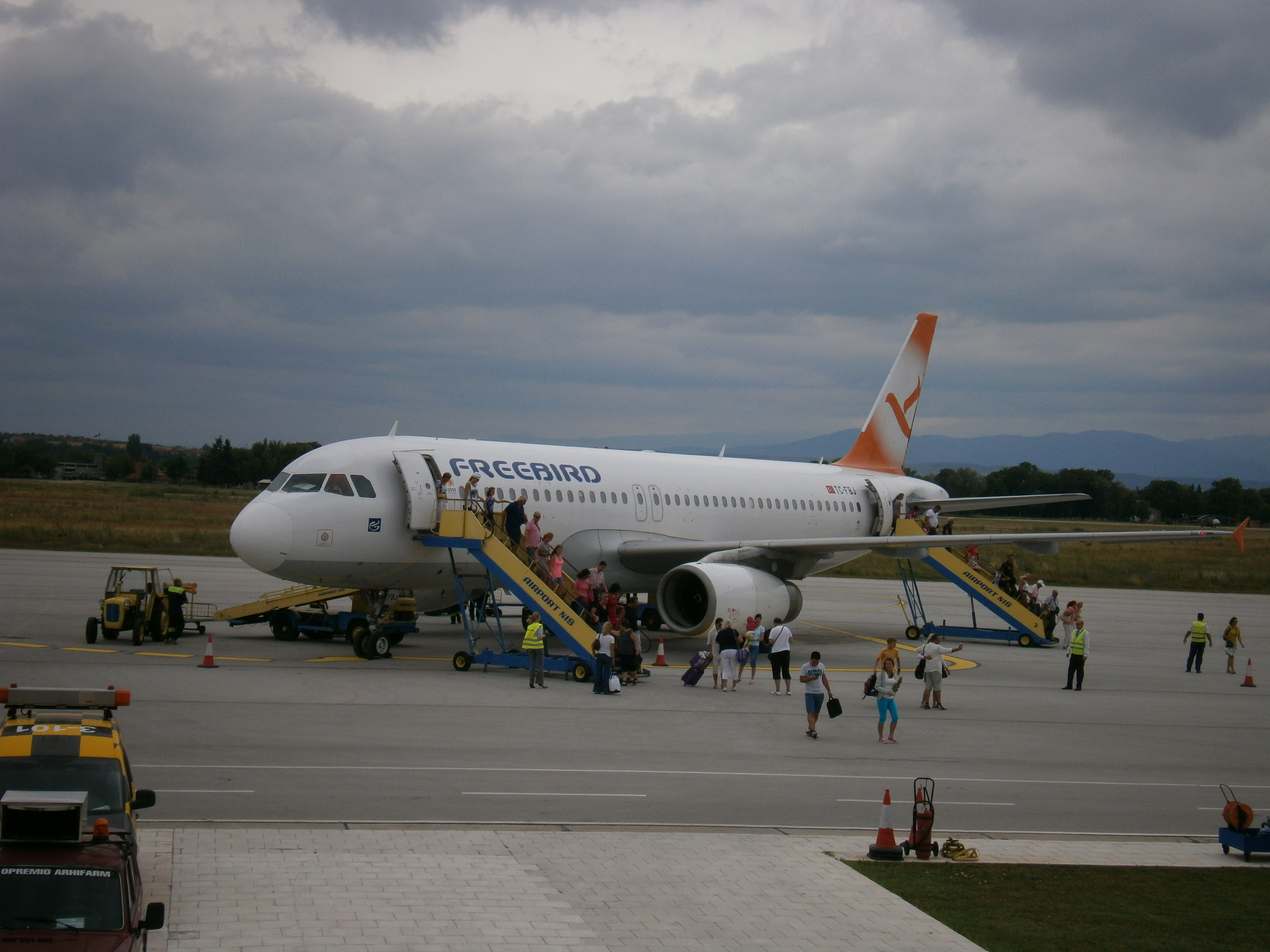 Charter flight from Nis to Antalya. A320 Freebird Airlines.